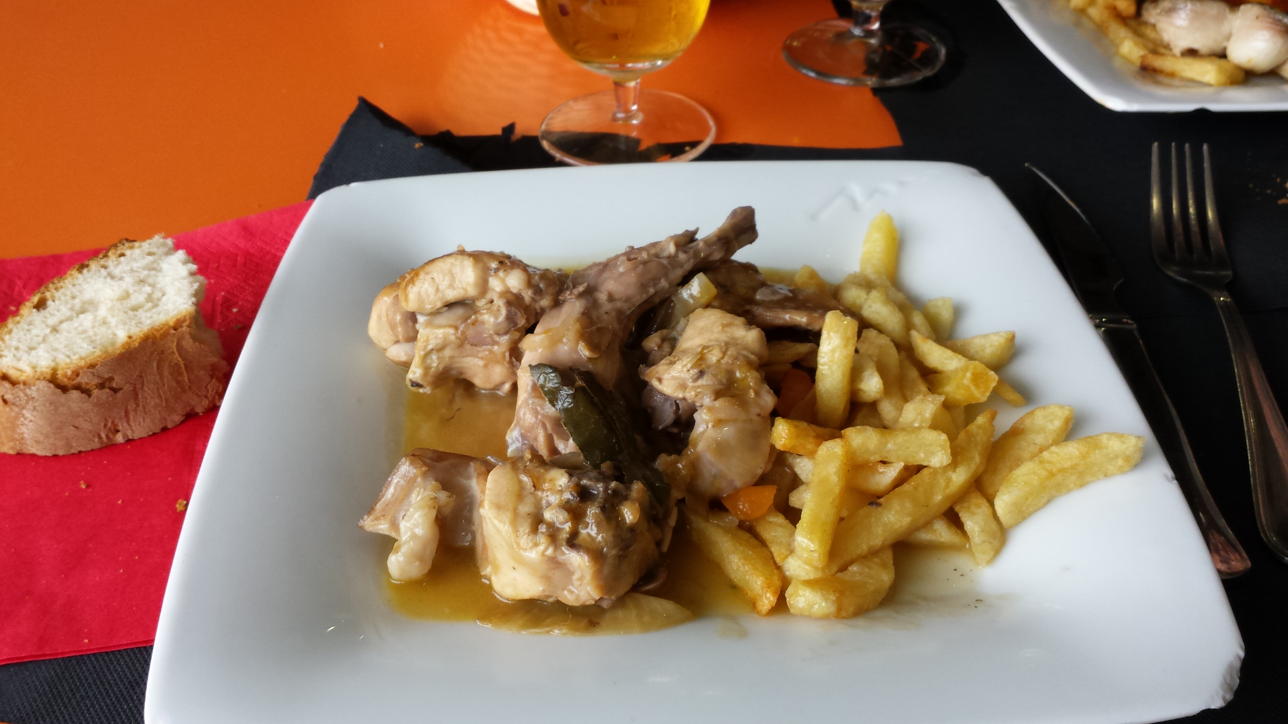 Pickled rabbit, Amblés Valley, Ávila.Spain